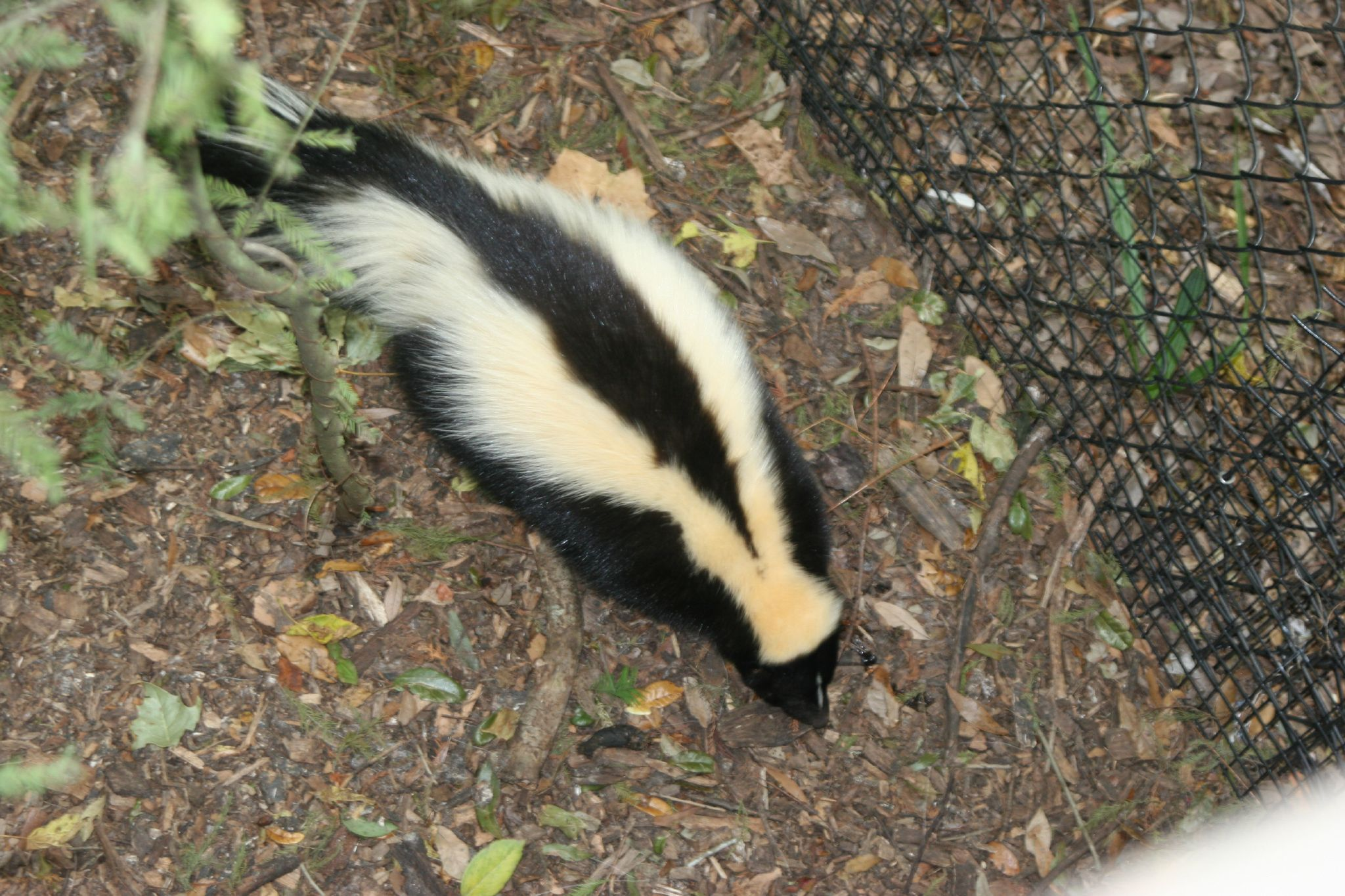 Skunk in Florida, Oct 2005